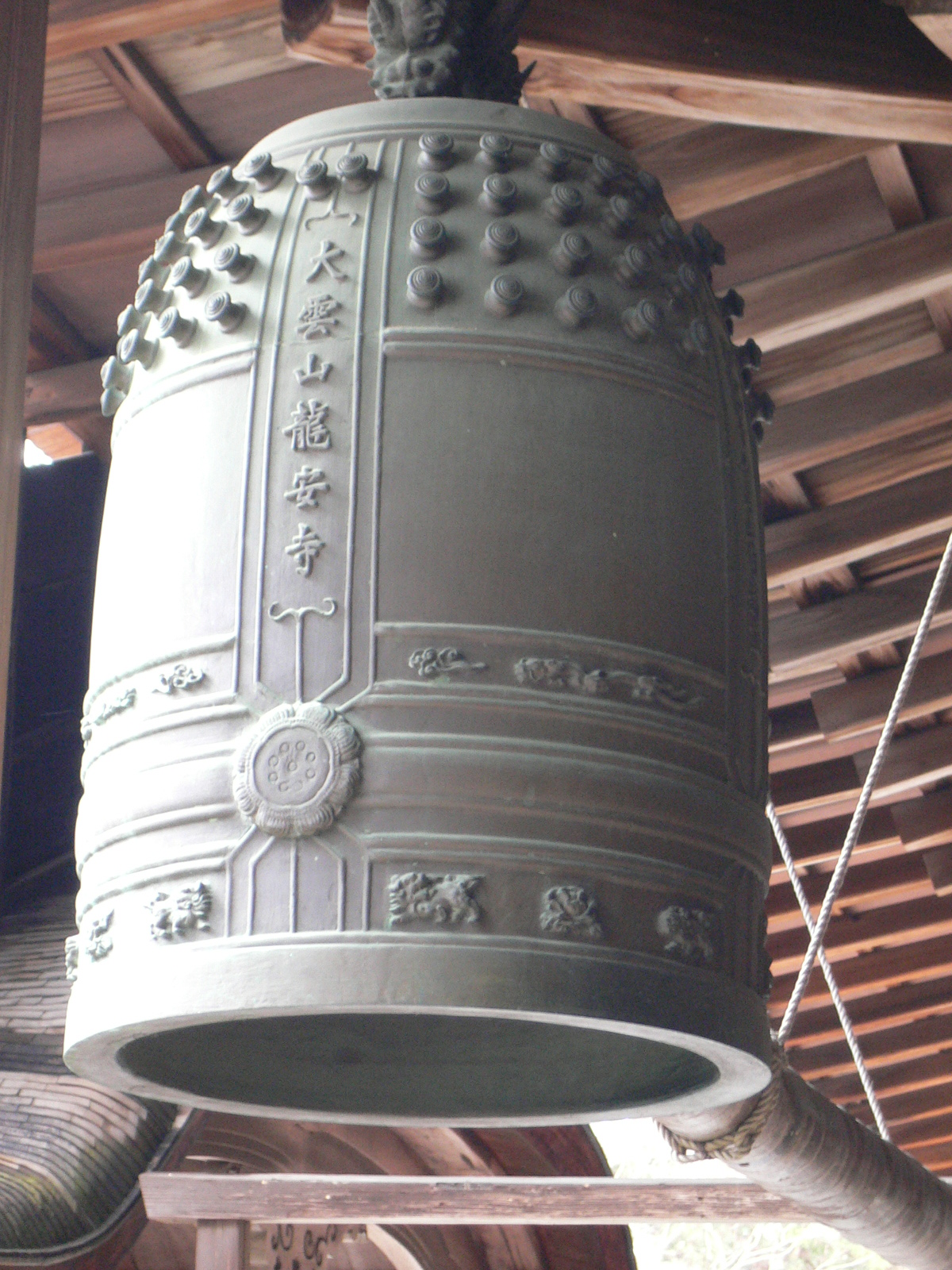 Ryoanji, temple bell (Bonshō), rung by striking from outside as bell has no internal clapper. Ukyo W, Kyoto City, Japan. This bell was created in 1950, and we have been unable to ascertain any claims to copyright by an individual bellmaker (or company, but corporate copyright is assumed to have existed). Under Japanese law, this makes the underlying work free.